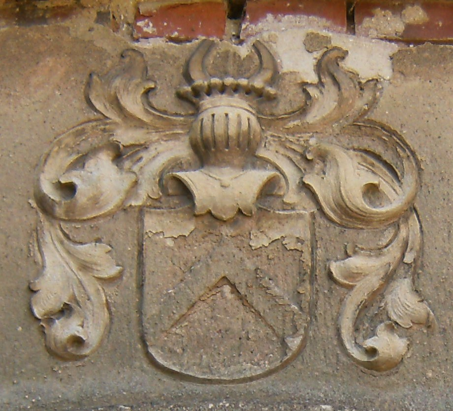 Gera Roben church, ancient manorial estate coat of arms.